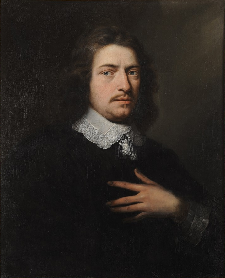 Portrait présumé de Colbert Collection privée (Paris) Materiaux : Huile sur toile - Rentoilage Dimensions : L. 75 cm X l. 61 cm Portrait présumé de Colbert avant son arrivée aux charges ministérielles. Il est ici représenté de trois quarts, en buste. Le nez, le double menton et l'ensemble rond de son visage nous rapproche très facilement de Colbert dans sa jeunesse. Le tableau semble daté de 1651 ce qui correspond à quatre ans avant son célèbre portrait réalisé par Philippe de Champaigne. Les différents portraits connus du grand ministre de Louis XIV ont tous des différences assez singulières de couleur de cheveux, d'yeux et d'autres détails d'anatomie. Notre toile est donc tout à fait légitime à entrer dans l'ensemble des représentations de Jean-Baptiste Colbert.